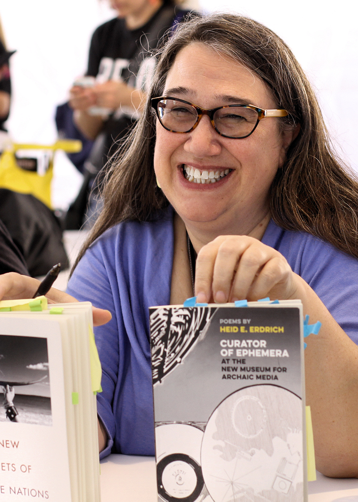 Author Heid E. Erdrich at the 2018 Texas Book Festival in Austin, Texas, United States.